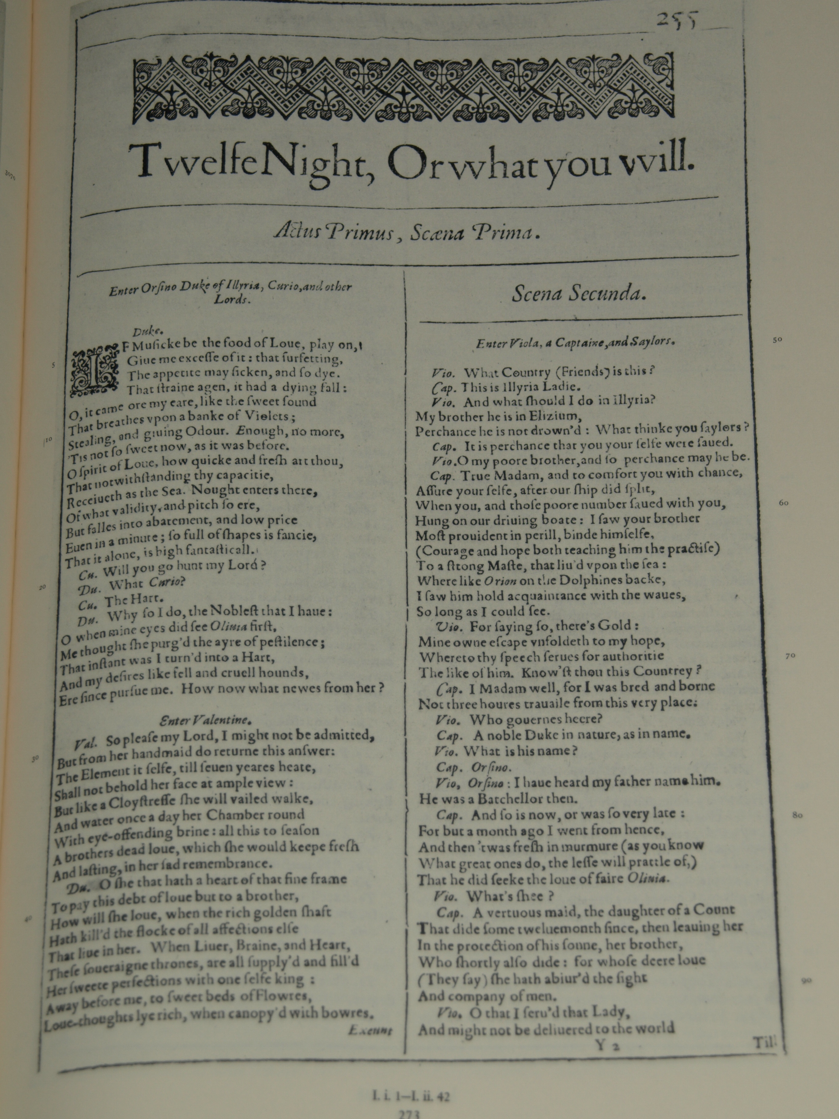 Photo of the first page of Twelfth Night from a facsimile edition of the First Folio of Shakespeare's plays, published in 1623